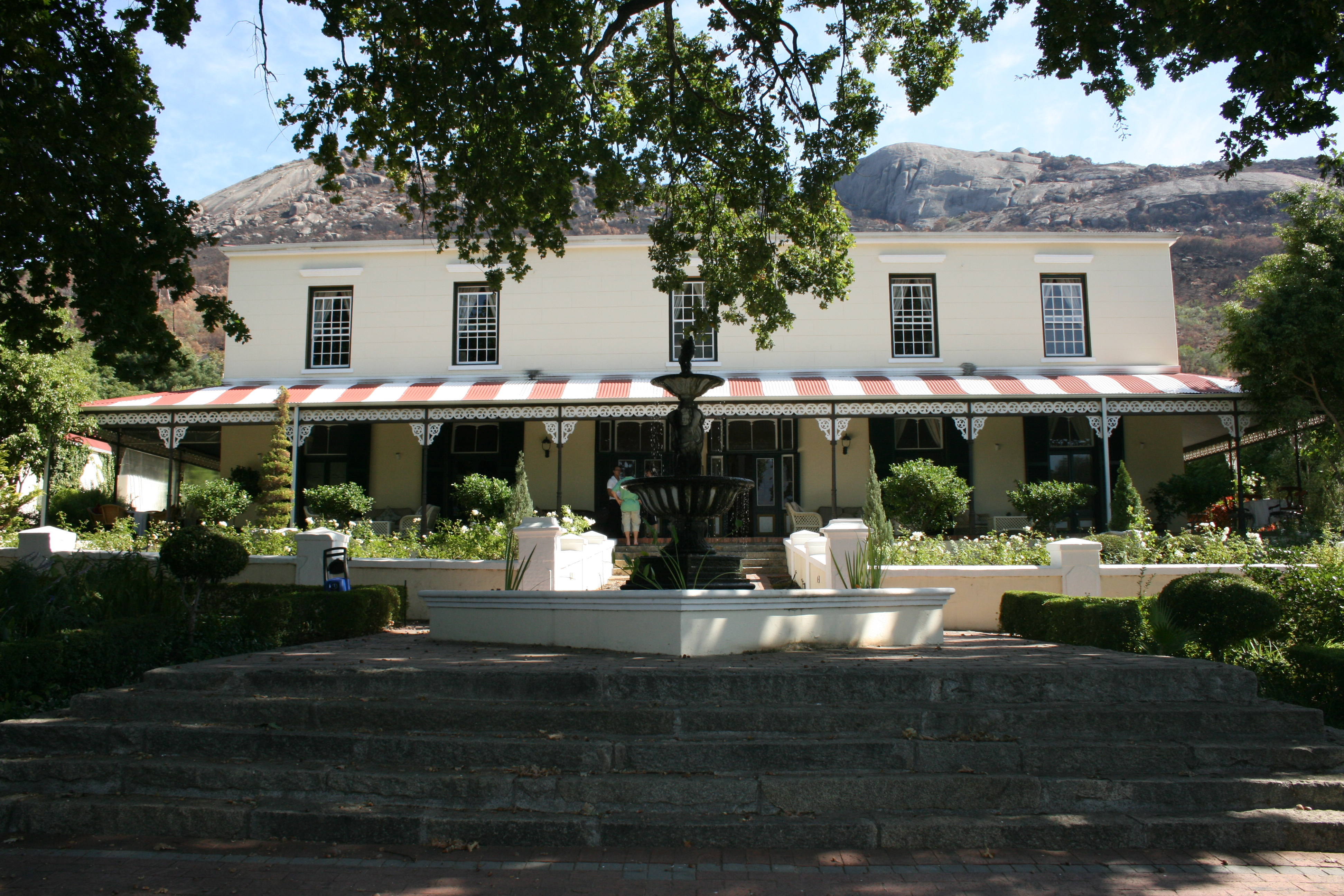 The main residence at Pontak, the original landholding of Pierre Labuscaigne.